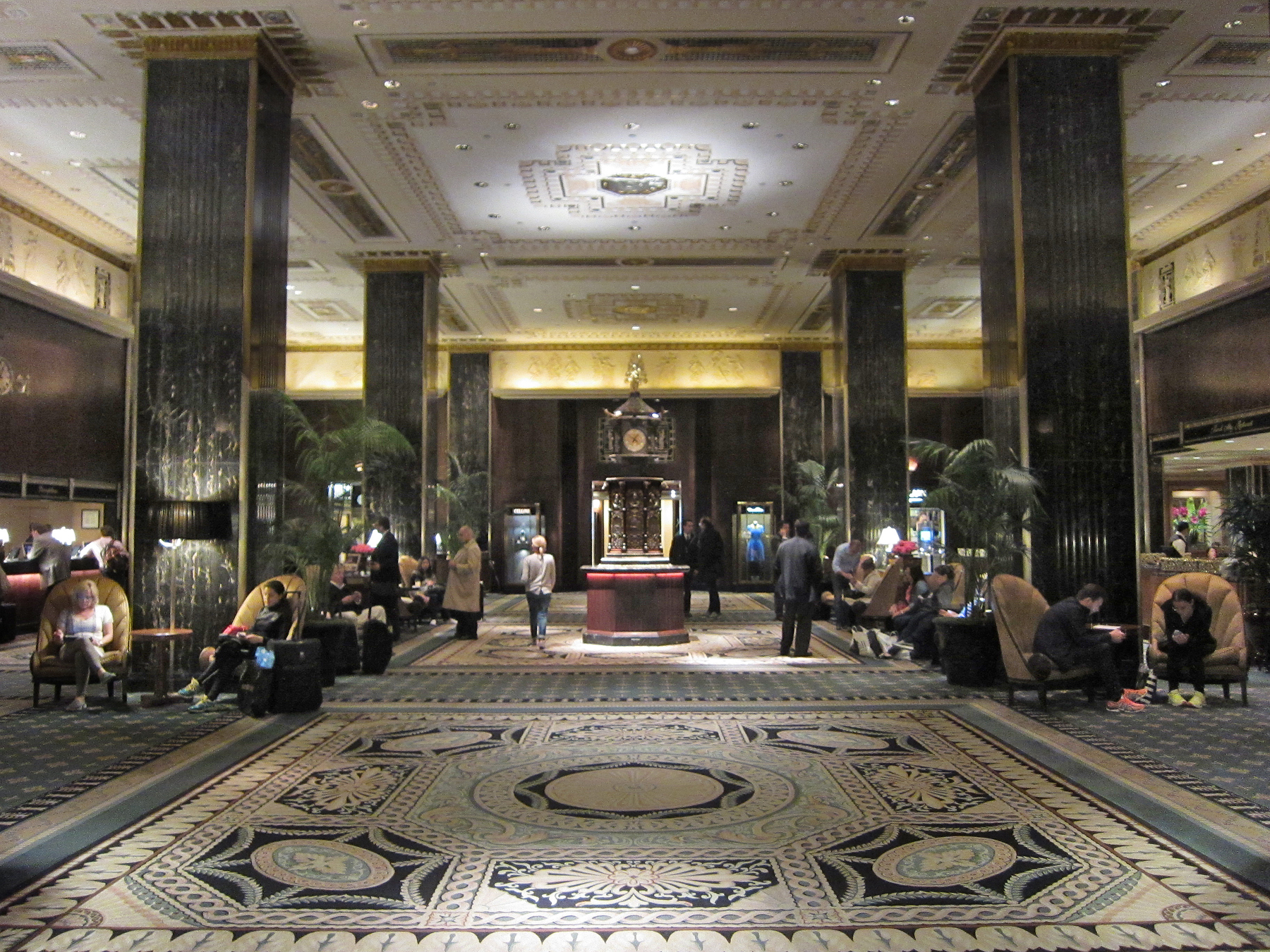 May, 2010 - Lobby of the Waldorf-Astoria hotel.